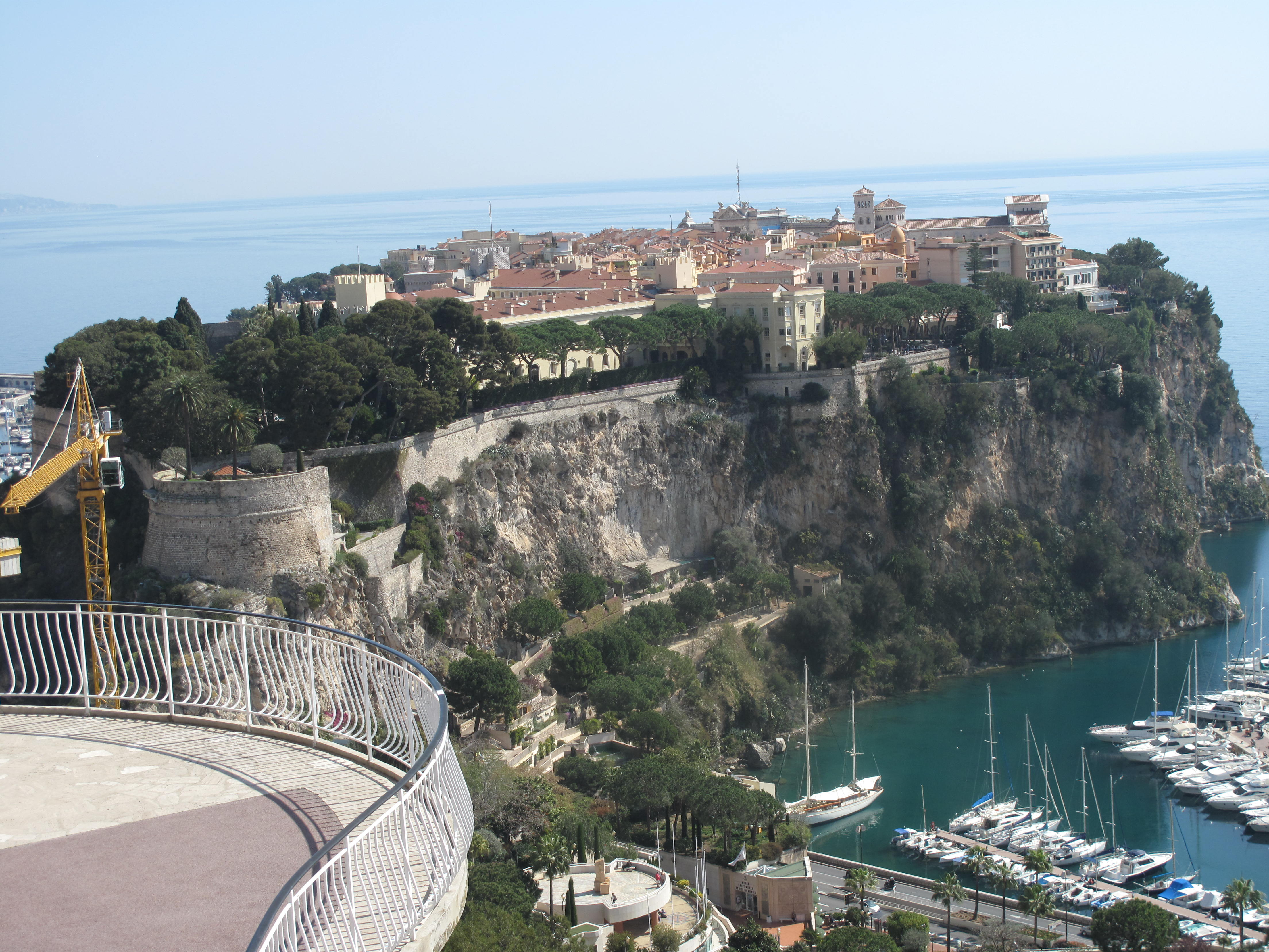 The Rock of Monaco (with the Palace and the museum) seen from the bottom of the exotic garden.